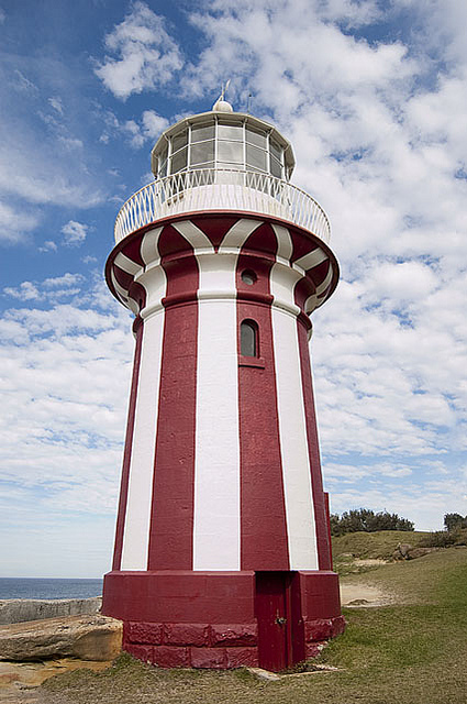 Hornby Lighthouse 24 April, 2010. Nikon D50. Cloudy Day. This was taken around 1pm.